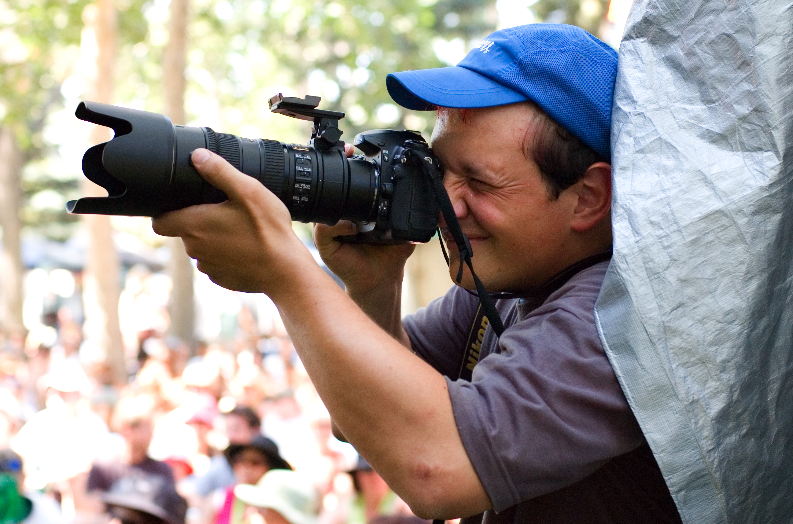 Photographer using a Nikon D200 at the 2007 Calgary Folk Music Festival